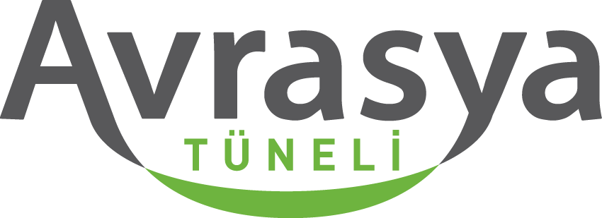 Eurasia Tunnel Logo